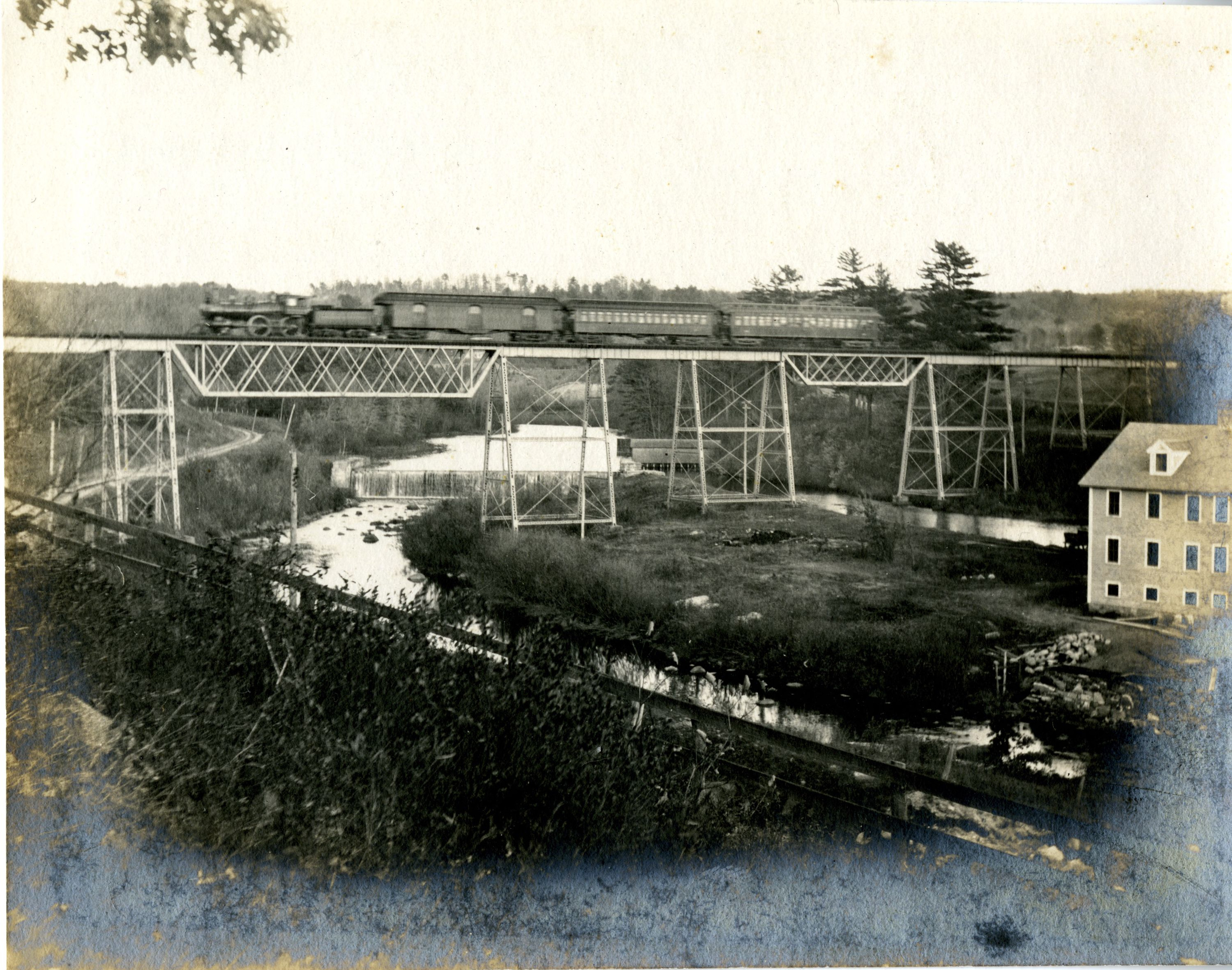 The trestle on the Boston and Maine Railroad's Central Massachusetts Branch over the Swift River and Boston and Albany Railroad's Athol Branch in 1910